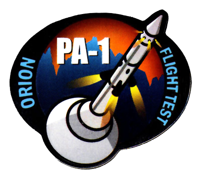 The Offical Mission Patch For Orion Pad Abort 1